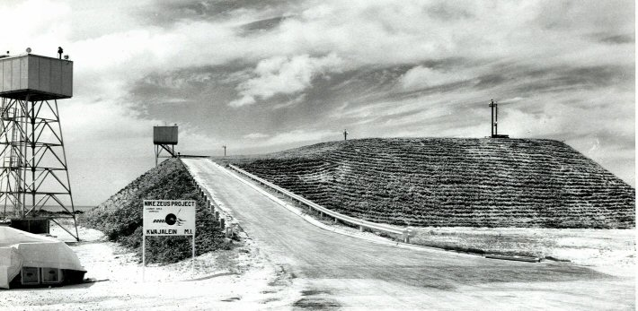 Photo of "Mount Olympus", the Nike-Zeus launcher complex on Kwajalein Island. Since the Zeus was stored in silos, and Kwajalein was only inches off the ocean, the Army built up Mount Olympus to be able to use the production-type silos while still being above the waterline. Mount Olympus was located on what was then the extreme south-western end of the atoll. The location of the road and ocean in the background suggest this image is taken looking west. The atoll has since been extensively backfilled, the area of ocean in this photo is now reclaimed land.